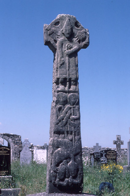 The "Doorty" Cross, Kilfenora. This high cross stands to the west of St Fachtnan's Cathedral; the churchyard is still used for burials.